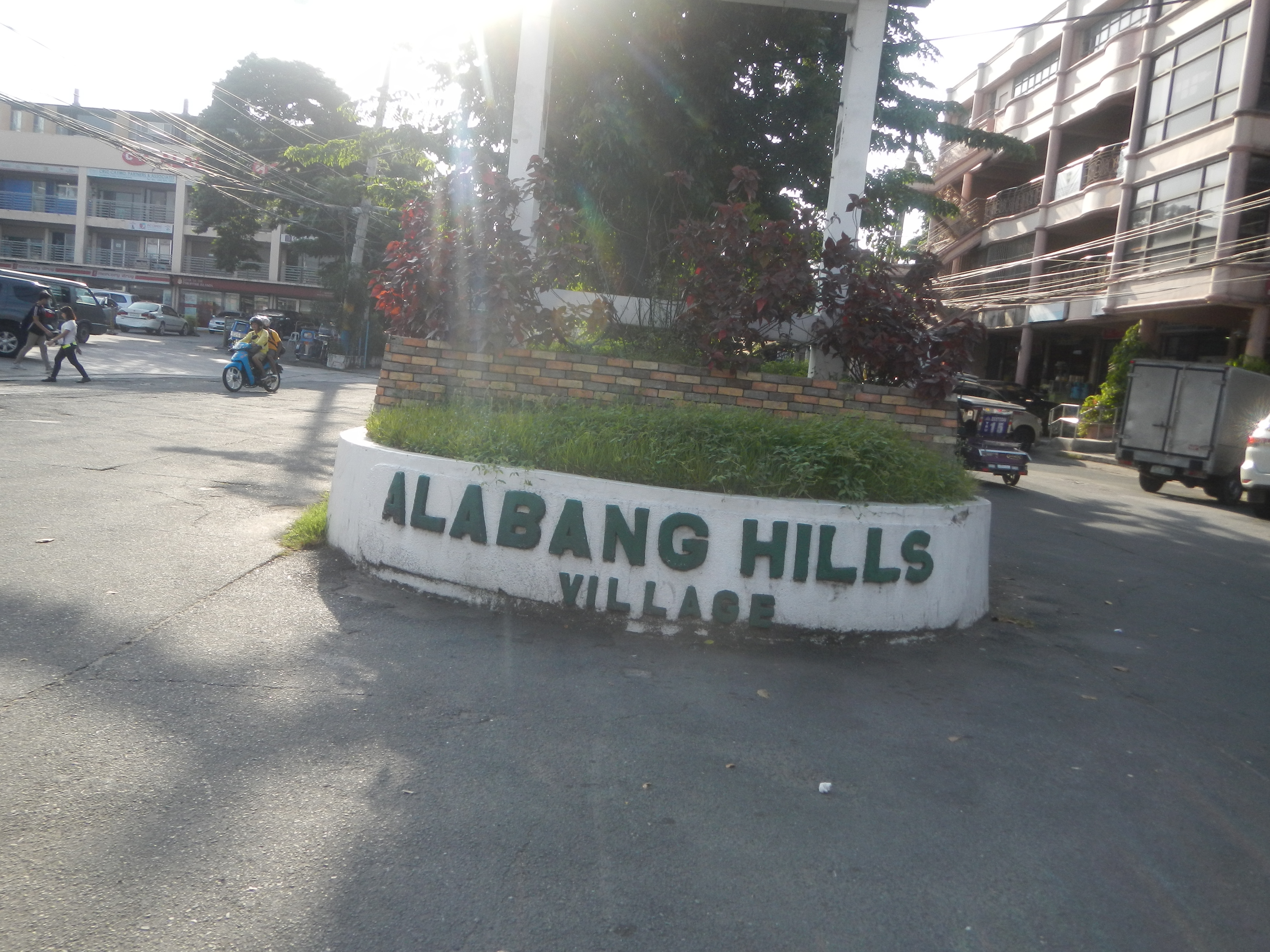 Alabang Alabang-Zapote Road and North Bridgeway (Filinvest City, Northgate, Alabang, Muntinlupa City) Aeon Center (Alabang, Muntinlupa City) The Bellevue (Alabang, Muntinlupa City) Capital One (Filinvest City, Northgate, Alabang, Muntinlupa City) Southkey Place (Filinvest City, Northgate, Alabang, Muntinlupa City) West Service Road (Alabang, Muntinlupa City) Filinvest Barangays Alabang 14°24'59"N 121°2'33"E Cupang 14°26'1"N 121°2'16"E City of Muntinlupa Alabang–Zapote Road Philippine highway network (Note: Judge Florentino Floro, the owner, to repeat, Donor Florentino Floro of all these photos hereby donate gratuitously, freely and unconditionally Judge Floro all these photos to and for Wikimedia Commons, exclusively, for public use of the public domain, and again without any condition whatsoever).